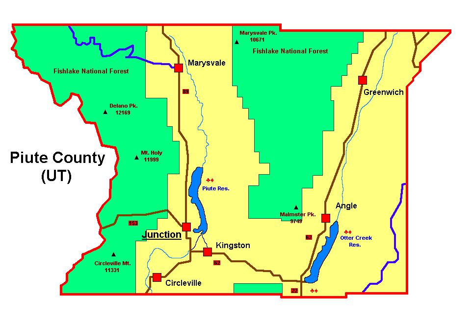 Piute County (UT) Details